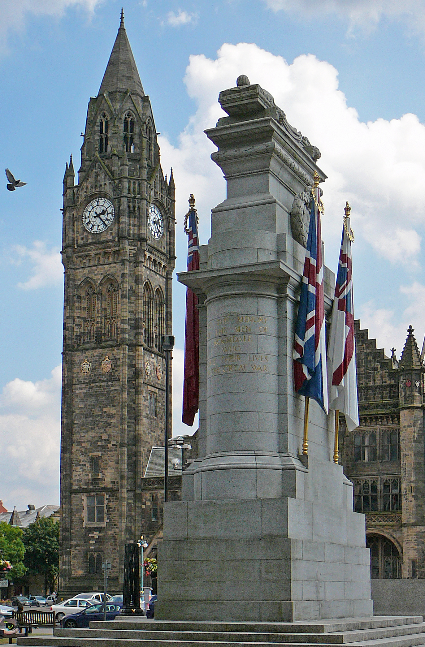 Rochdale Town Hall and Rochdale War Memorial in Rochdale, Greater Manchester, England.